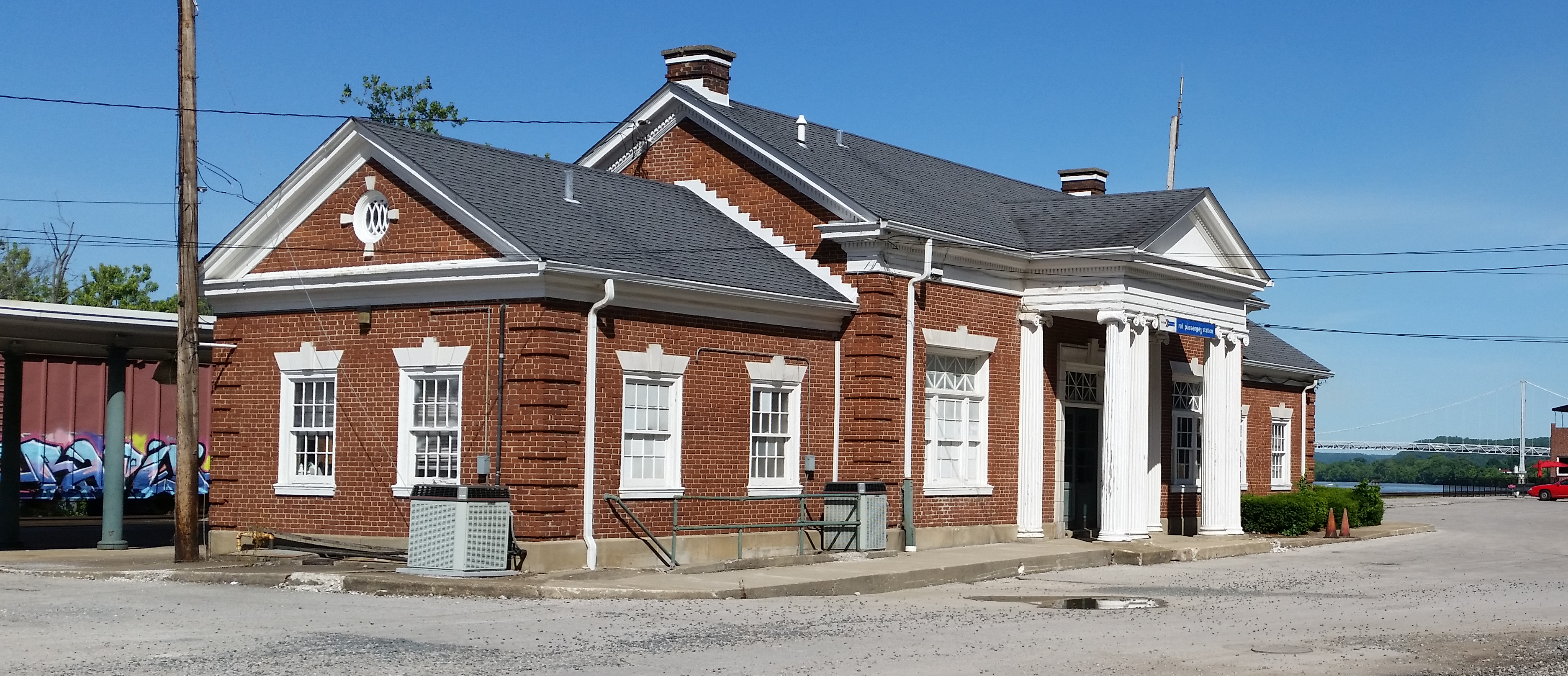 A view of Maysville Kentucky Amtrak Station from west with the Ohio River and Simon Kenton Memorial Bridge in background at right.